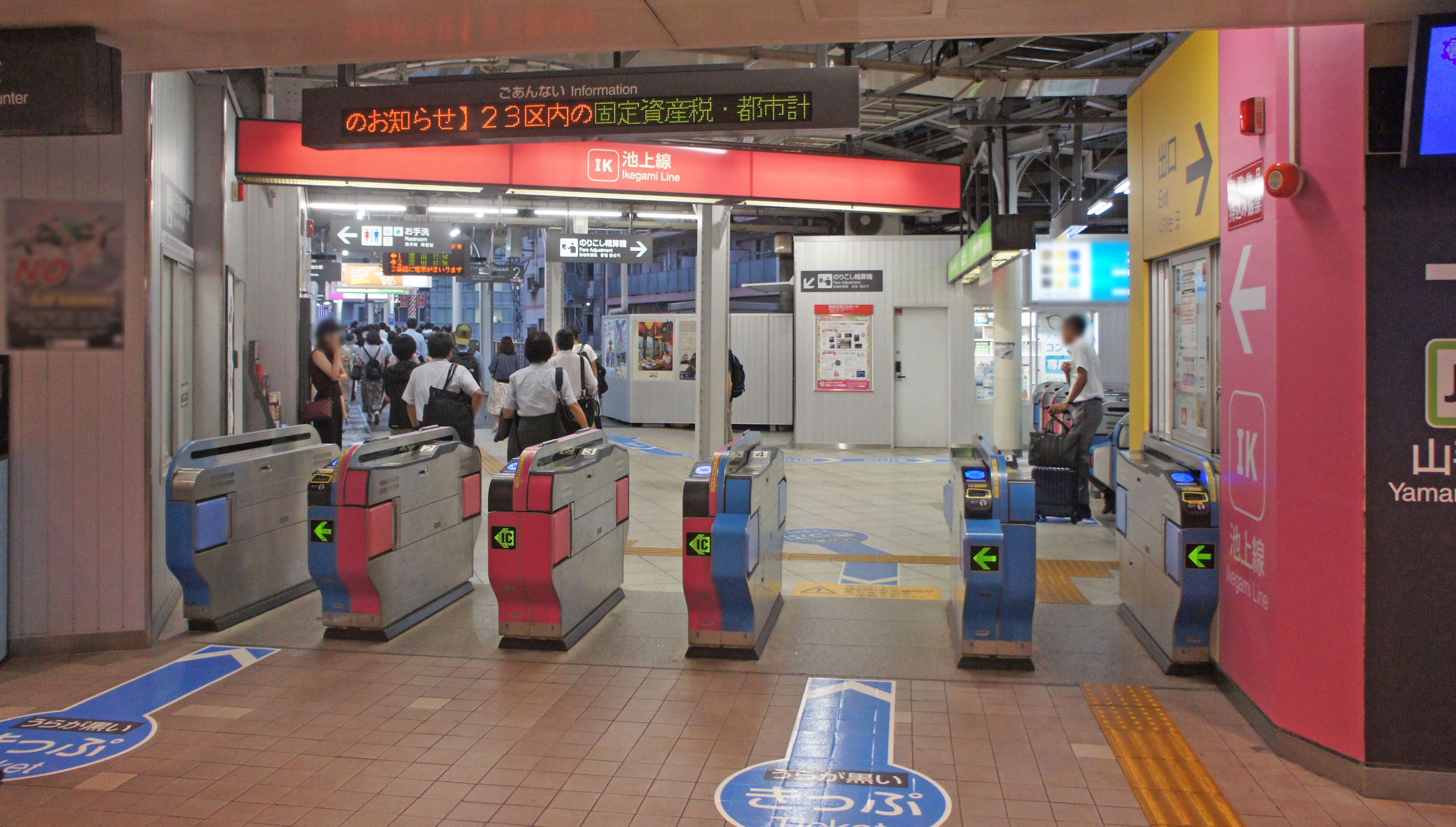 Gates of Tokyu Ikegami-Line Gotanda Station